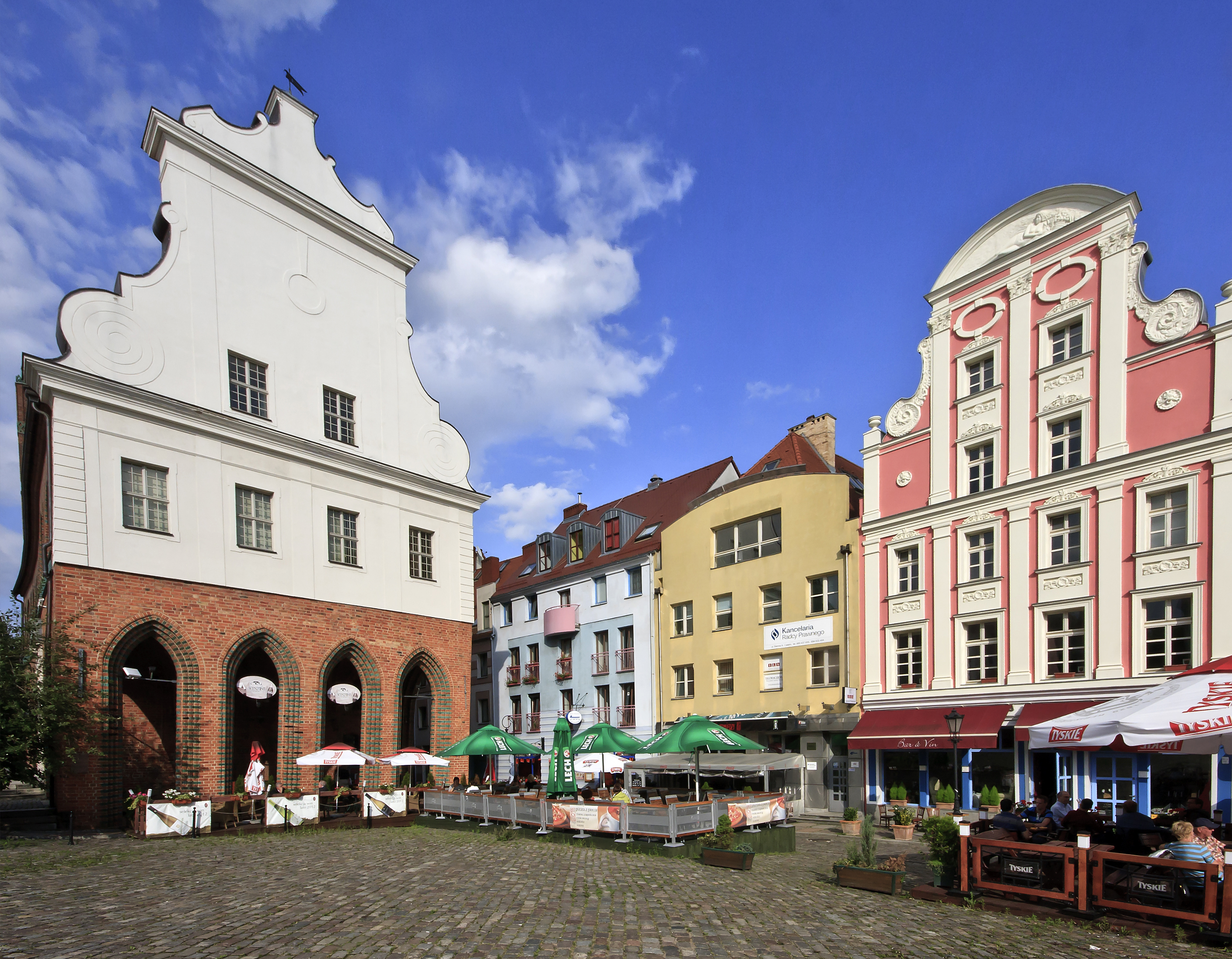 Szczecin old town hall (building to the left).